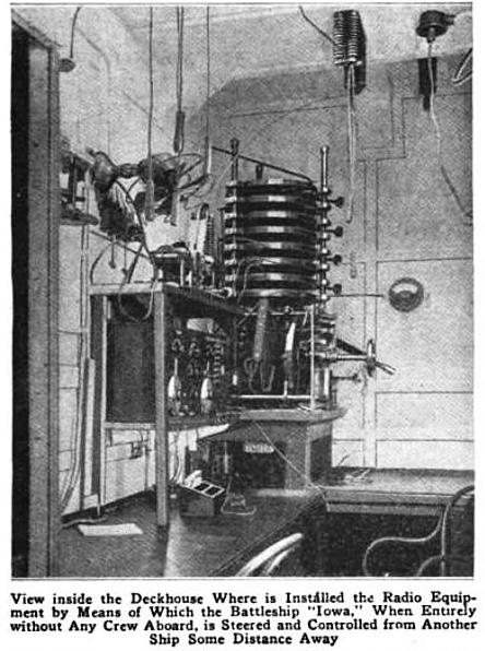 Photograph of the remote control radio gear installed in the USS Iowa which became the first remotely controlled target ship to be used in a fleet exercise